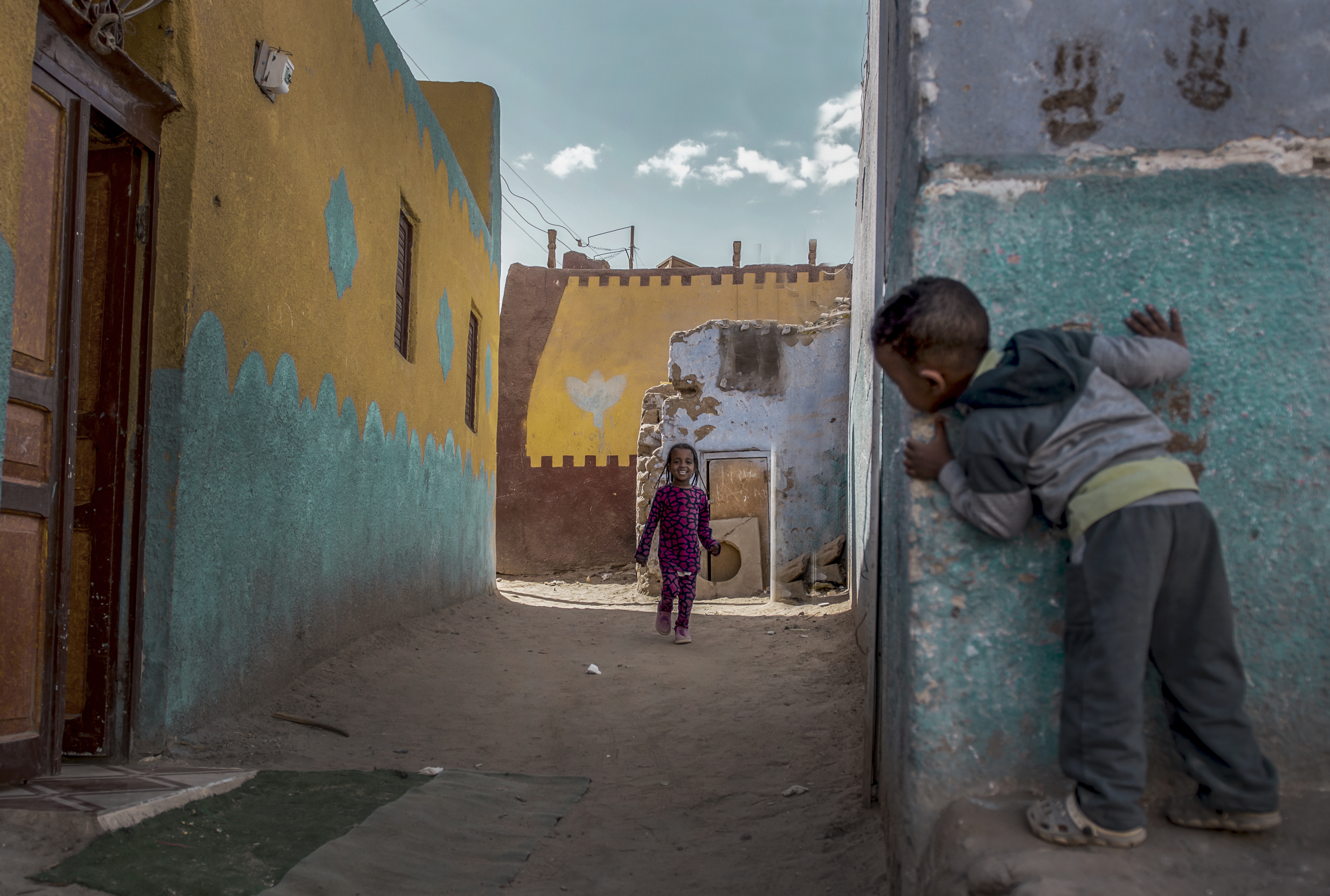 This is an image with the theme "Play" from: Egypt